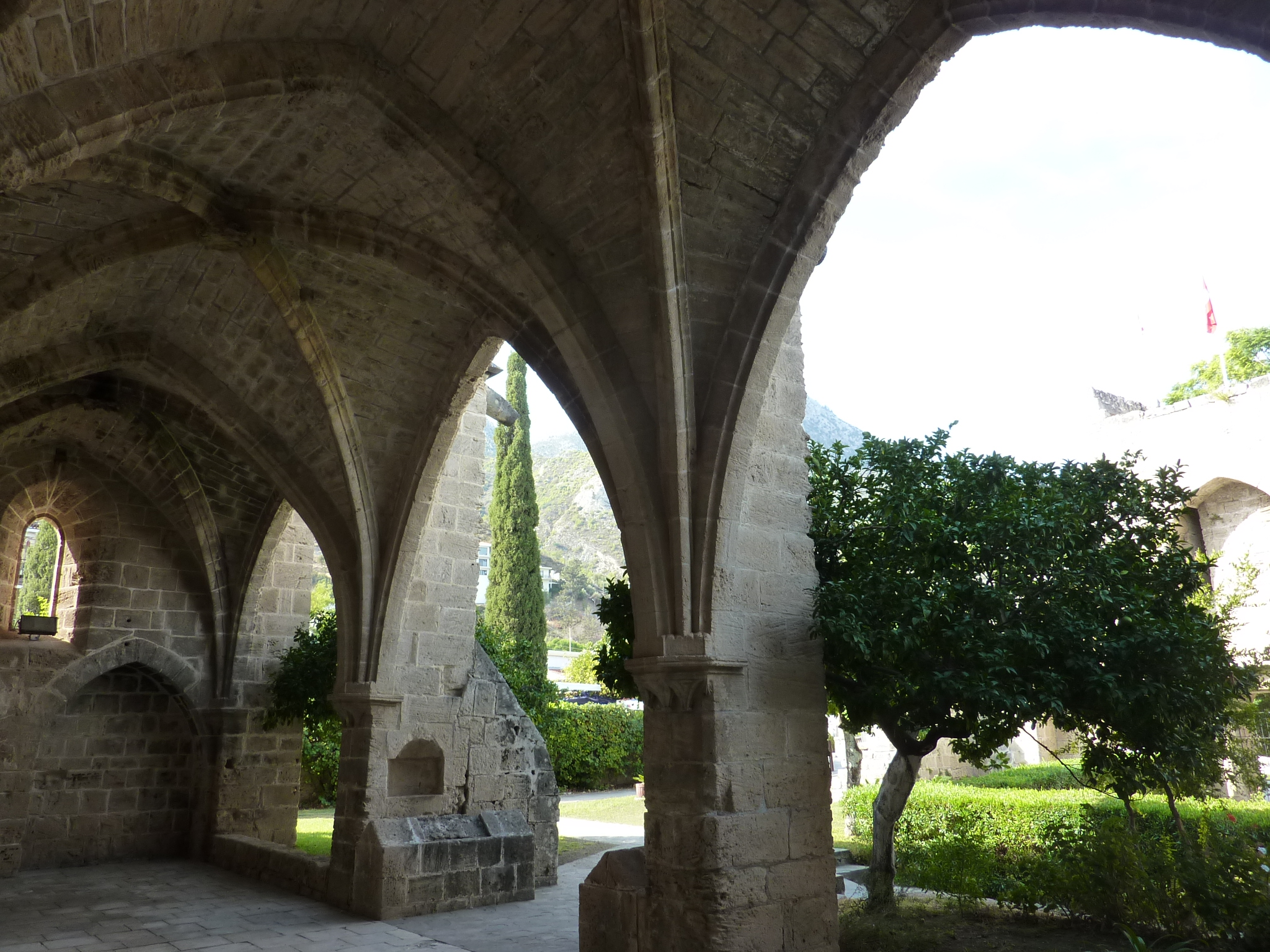 Bellapais Monastery - Abbey church